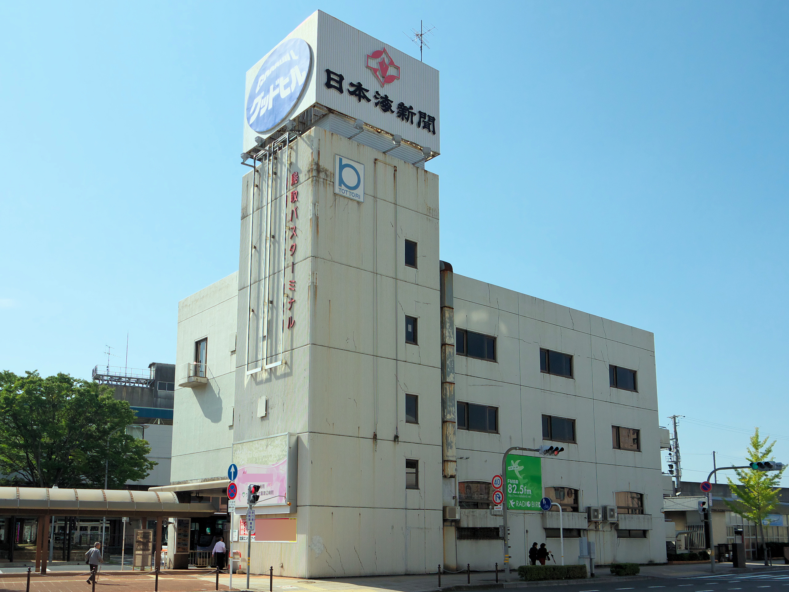 Tottori Bus Terminal (FM Tottori), Tottori, Tottori prefecture